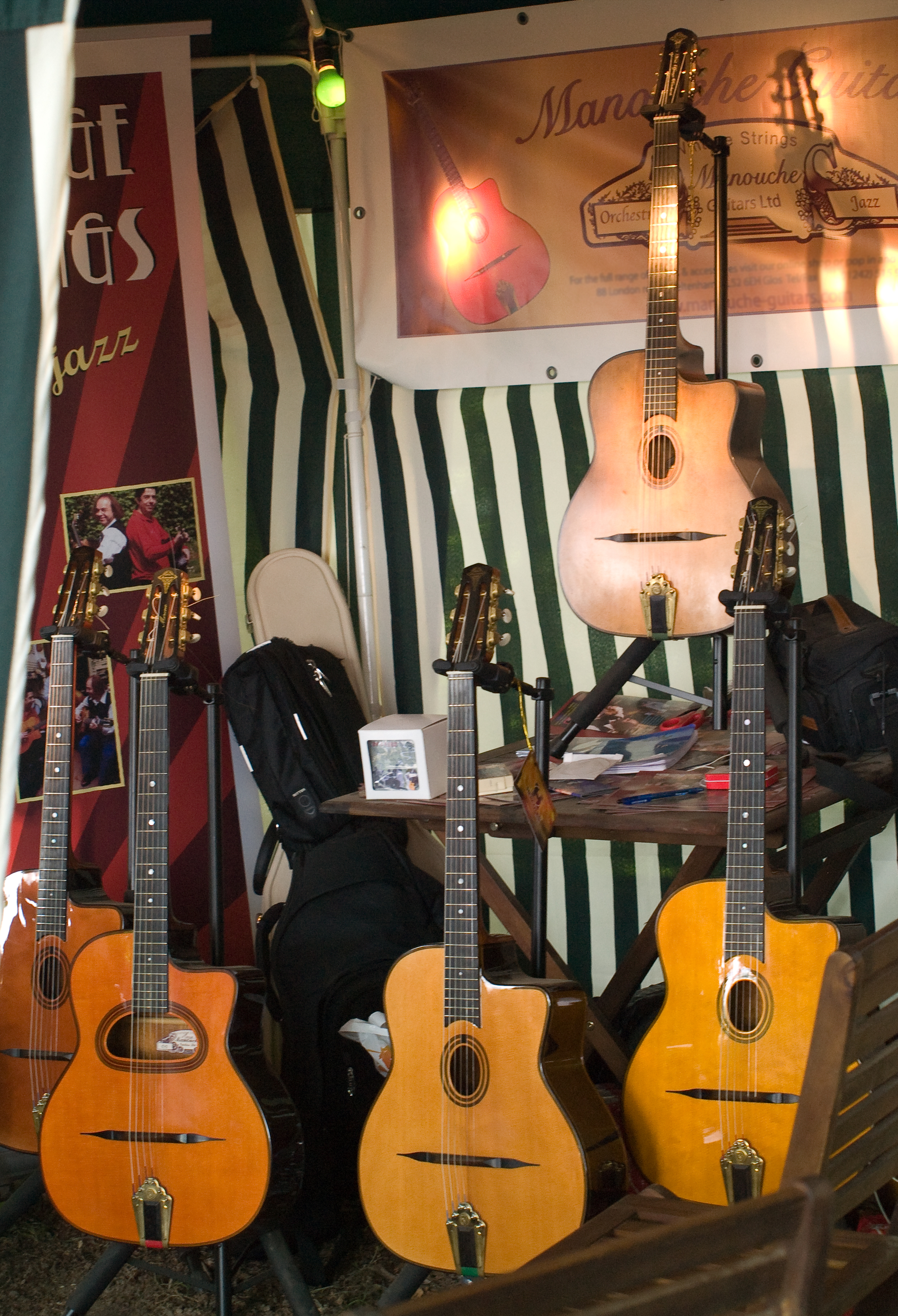 Selmer-Maccaferri and Selmer style replica guitars used in gypsy jazz, with D-shaped soundhole (the "grande bouche," or "big mouth") or oval soundhole (the "petite bouche", or "small mouth").